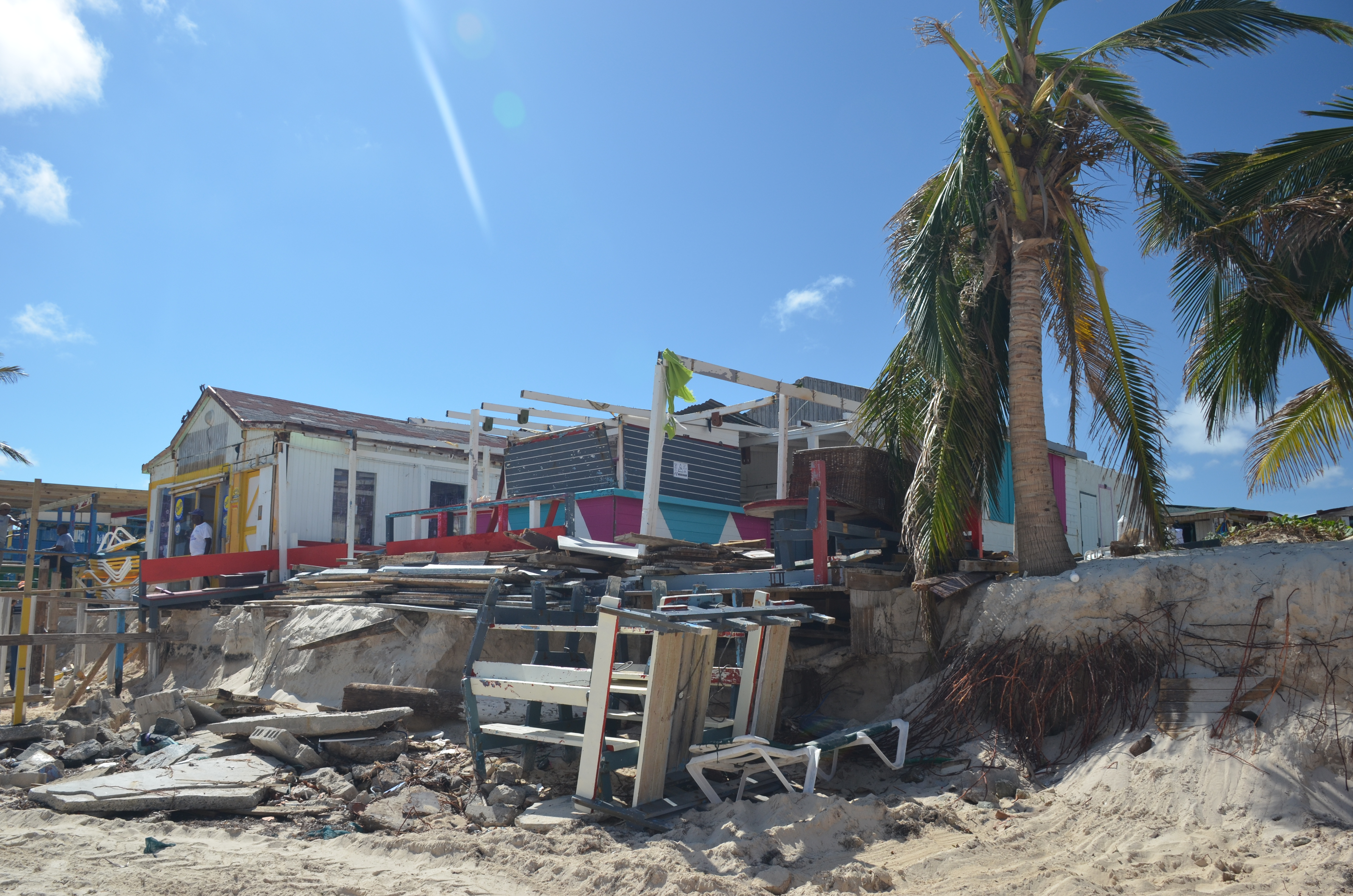 the rebuilding has begun